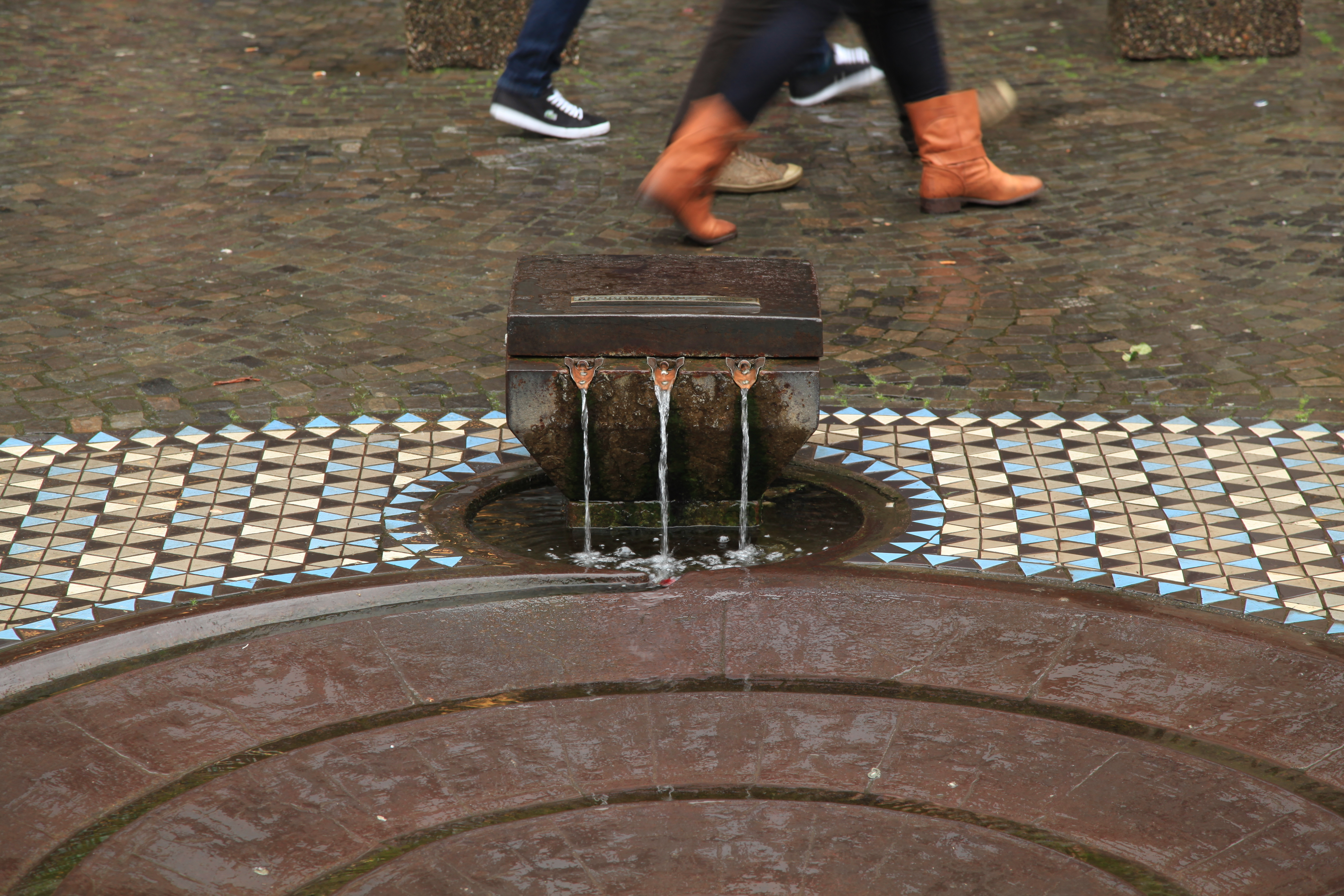 Taubenbrunnen (dove fontain) at the Domplatte square in Cologne